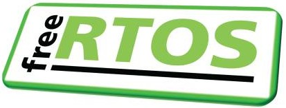 Logo of the operating system FreeRTOS